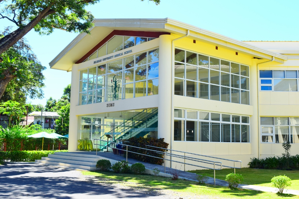 Facade of the Silliman University Medical School in Dumaguete City, Philippines.